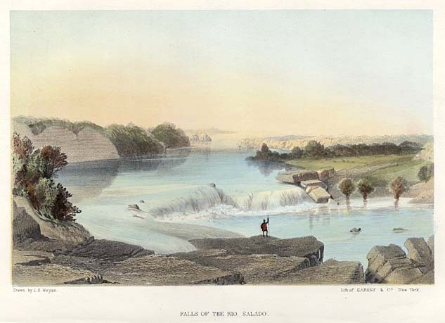 "Falls of the Rio Salado" by John Weyss, Published by Sarony & Co. New York, handcoloured lithograph, c.1857, Image size 5 1/2 x 8 1/4" (138 x 212 mm). This lithograph appeared in "Report on the United States and Mexican Boundary Survey", published between 1857 and 1859. It was the official report of the U.S. Boundary Commission upon completing its work of surveying and mapping the United States-Mexico boundary.